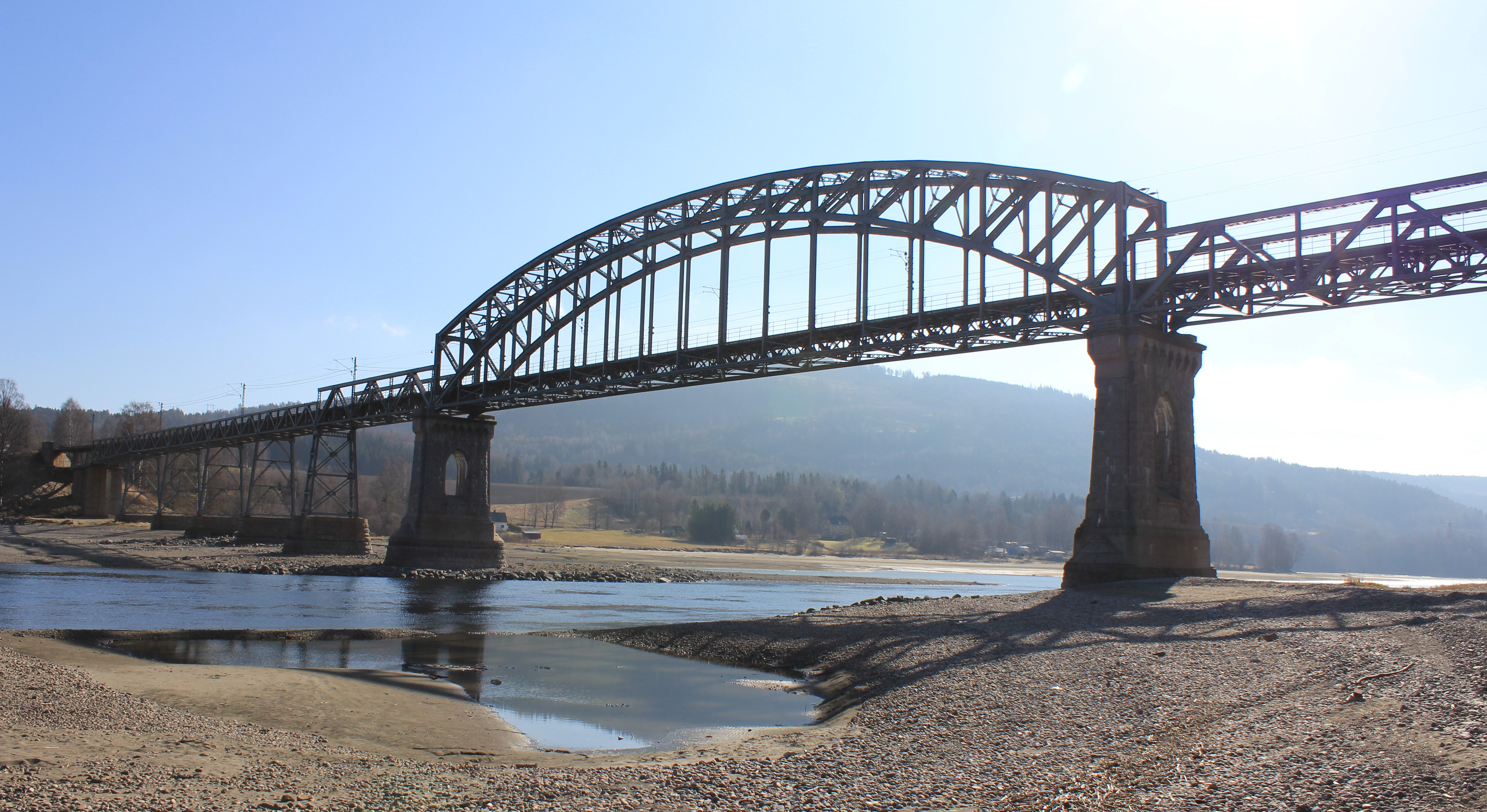 The railroad bridge crossing Vorma River by Minnesund, Akershus, Norway.